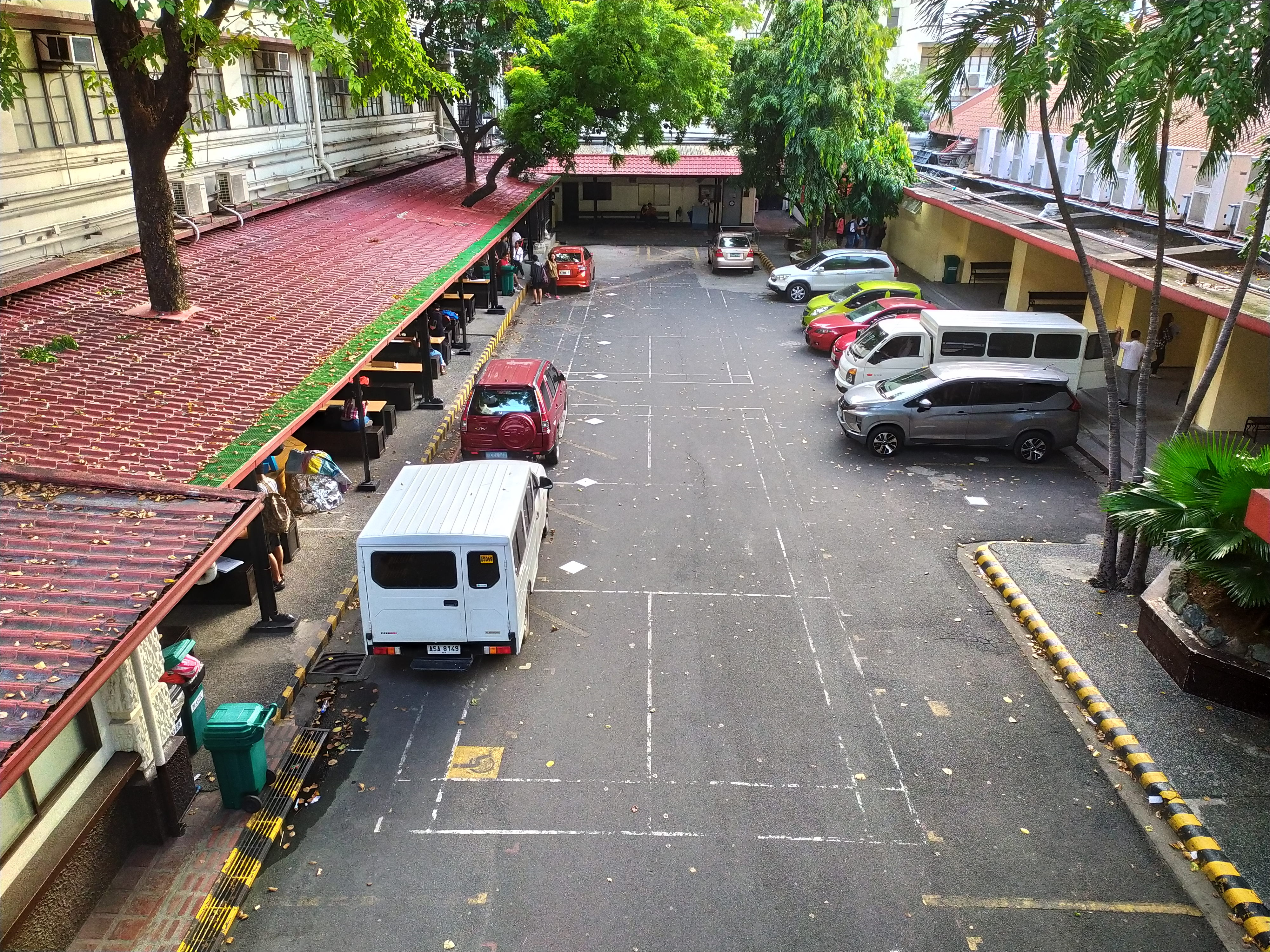 Inside the Mapúa University Intramuros' campus, Southern area.